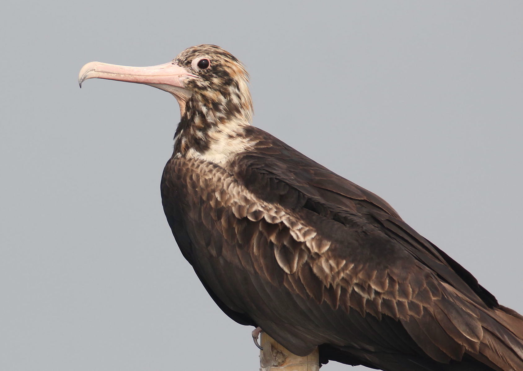 Christmas Island Frigatebird photographed at Jakarta Bay, Jakarta, Indonesia.